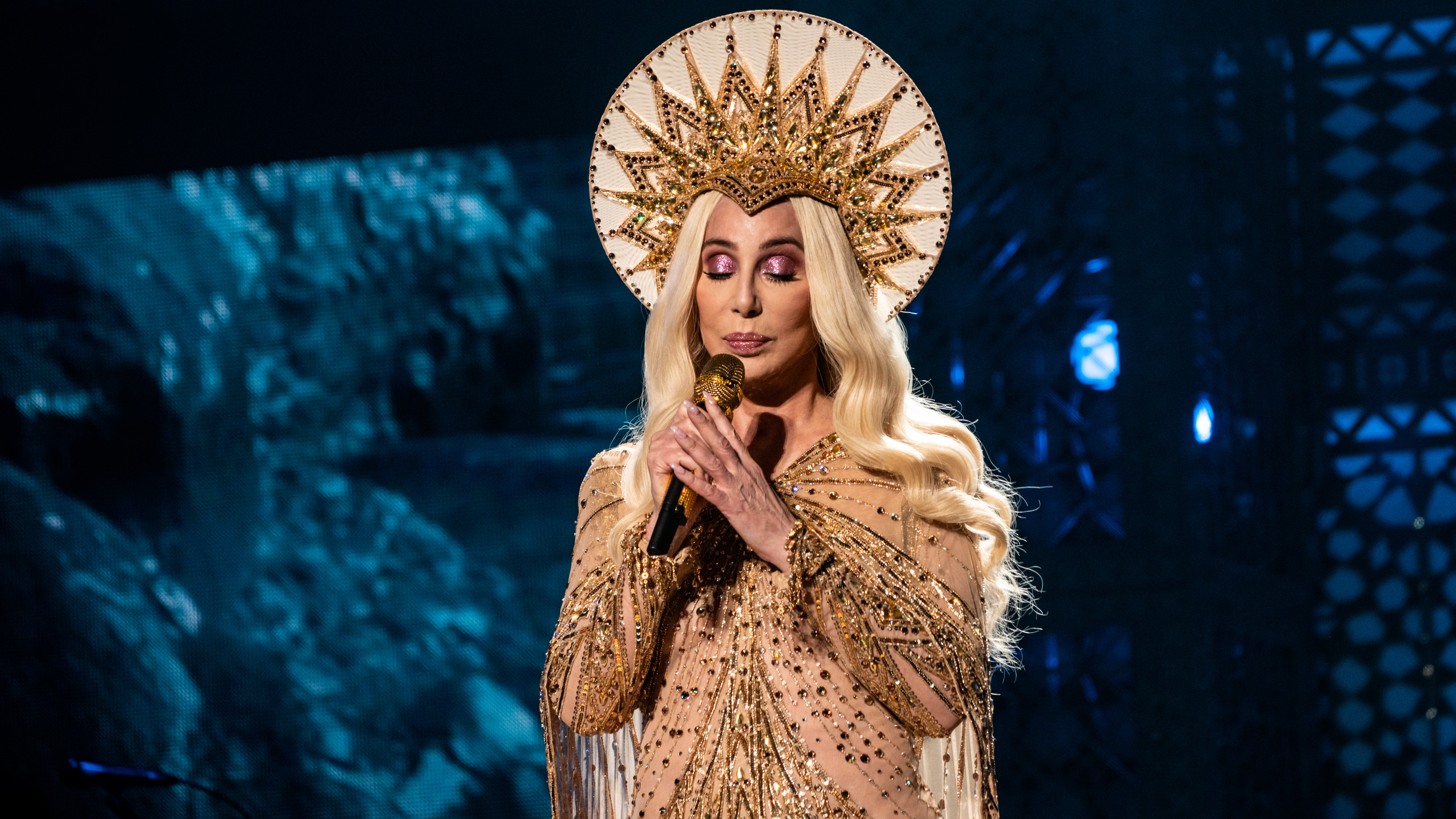 CherO2201019-31